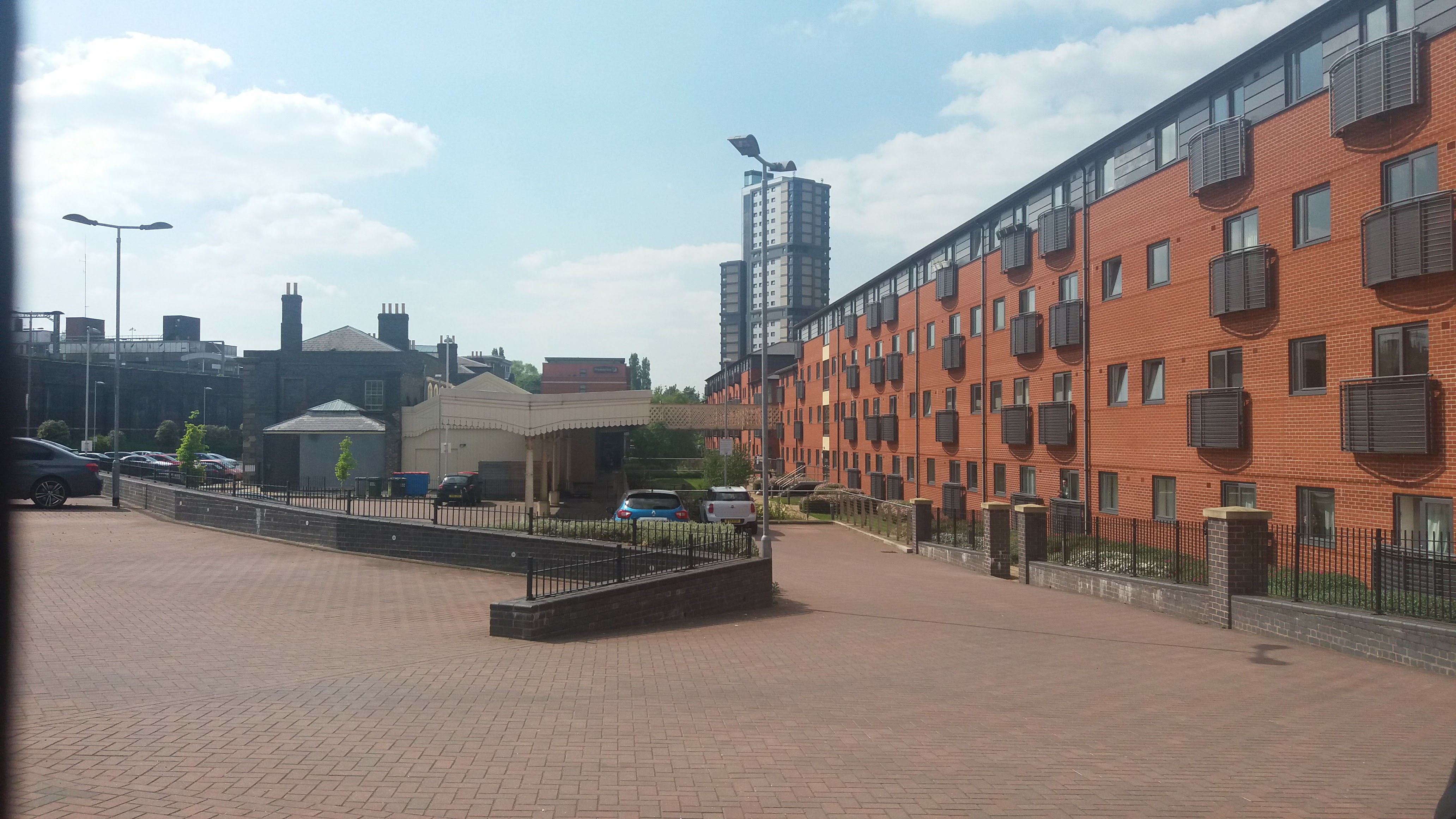 My own.